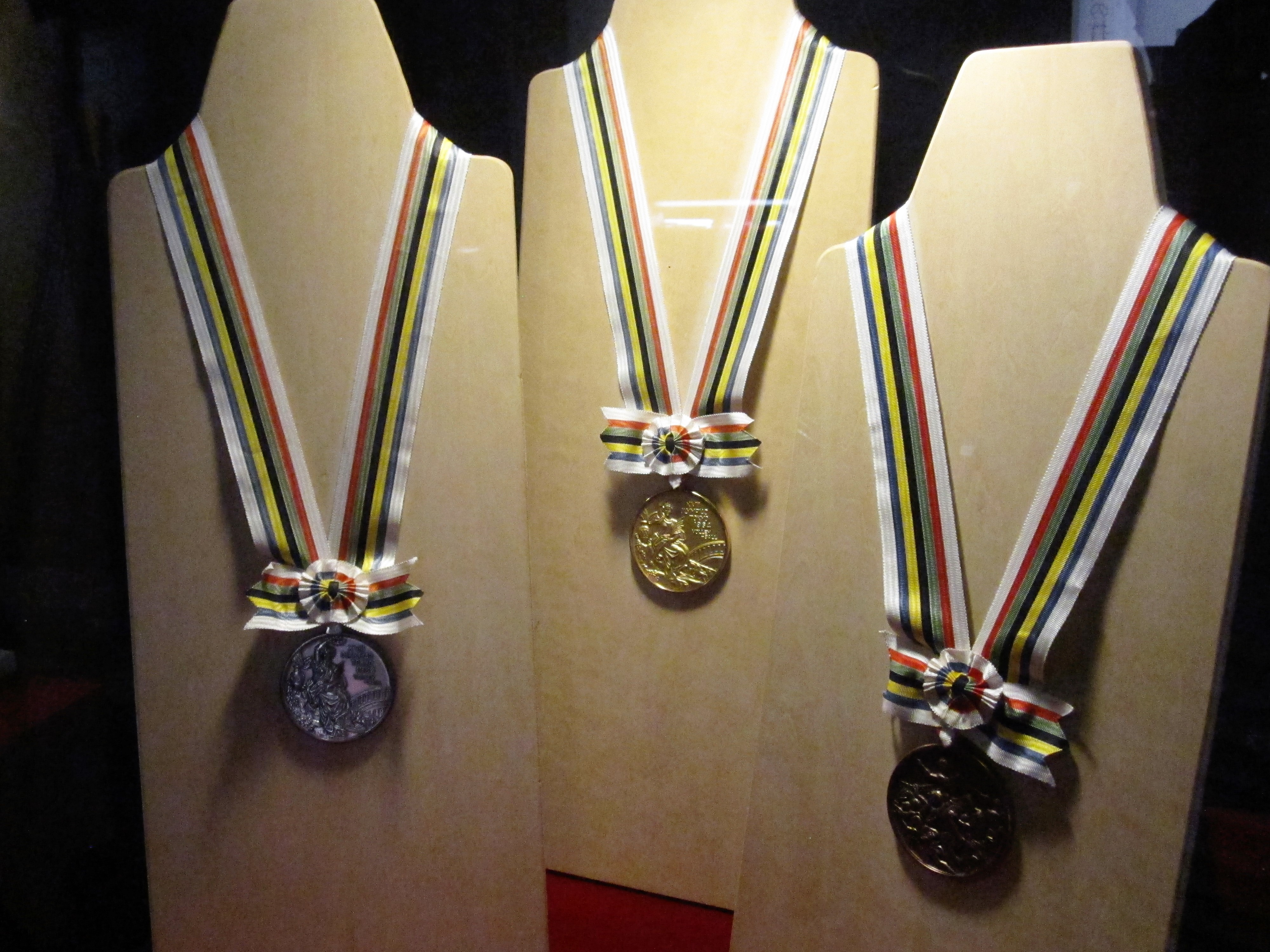 1964 Summer Olympics medals, displayed in Japan Mint Saitama Museum.